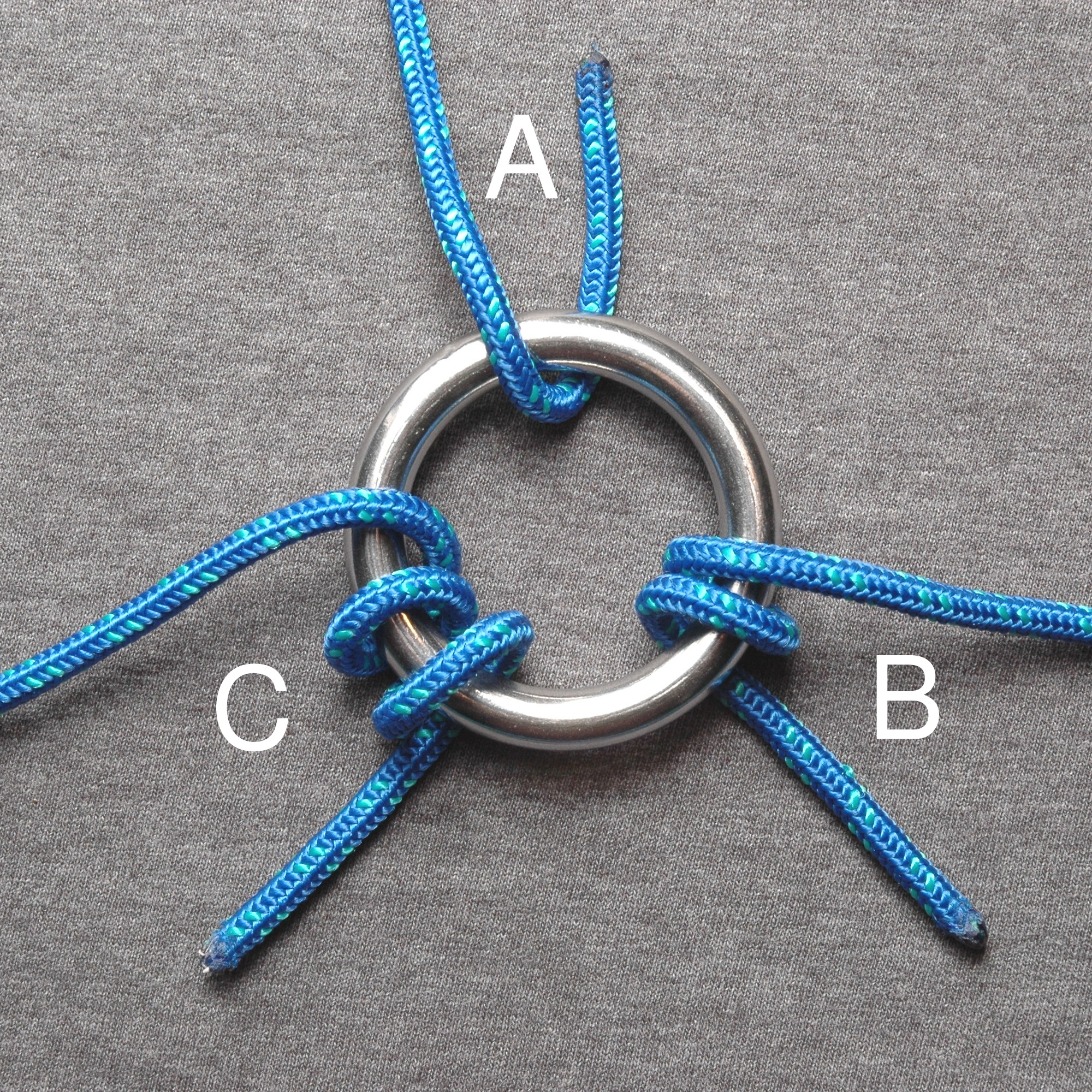 Various "turns", which are components of knots - A: Turn, B: Round turn, C: Two round turns